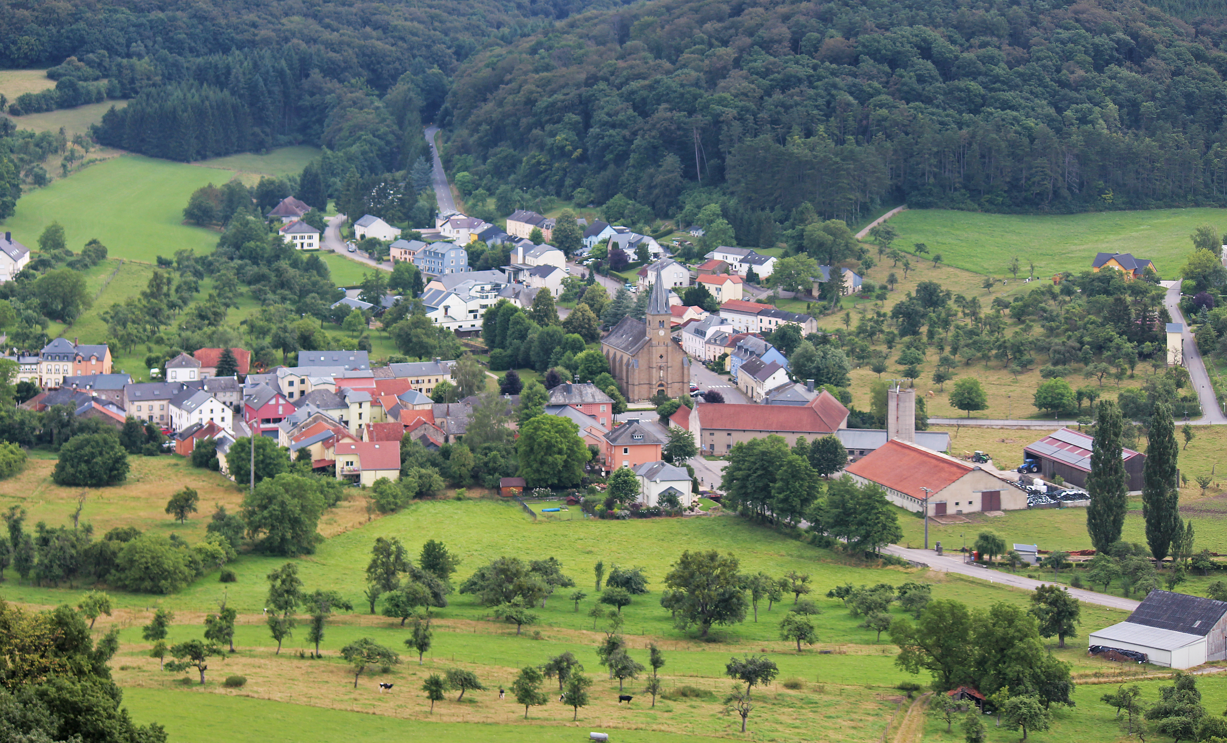 Bech, Luxembourg